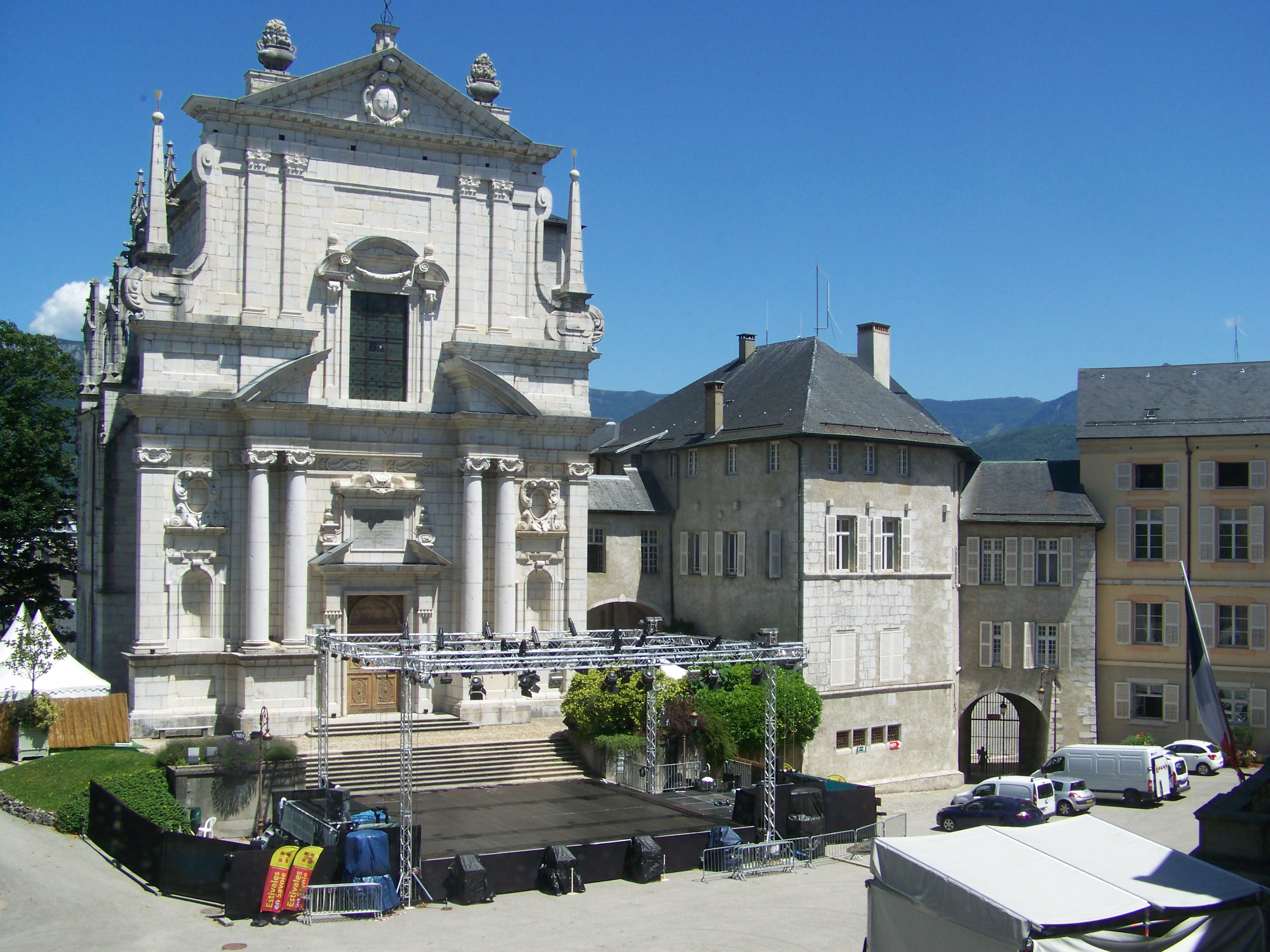 Scene of Estivales en Savoie music festival, taking place each summer at the château des ducs de Savoie castle in Chambéry, Savoie, France.